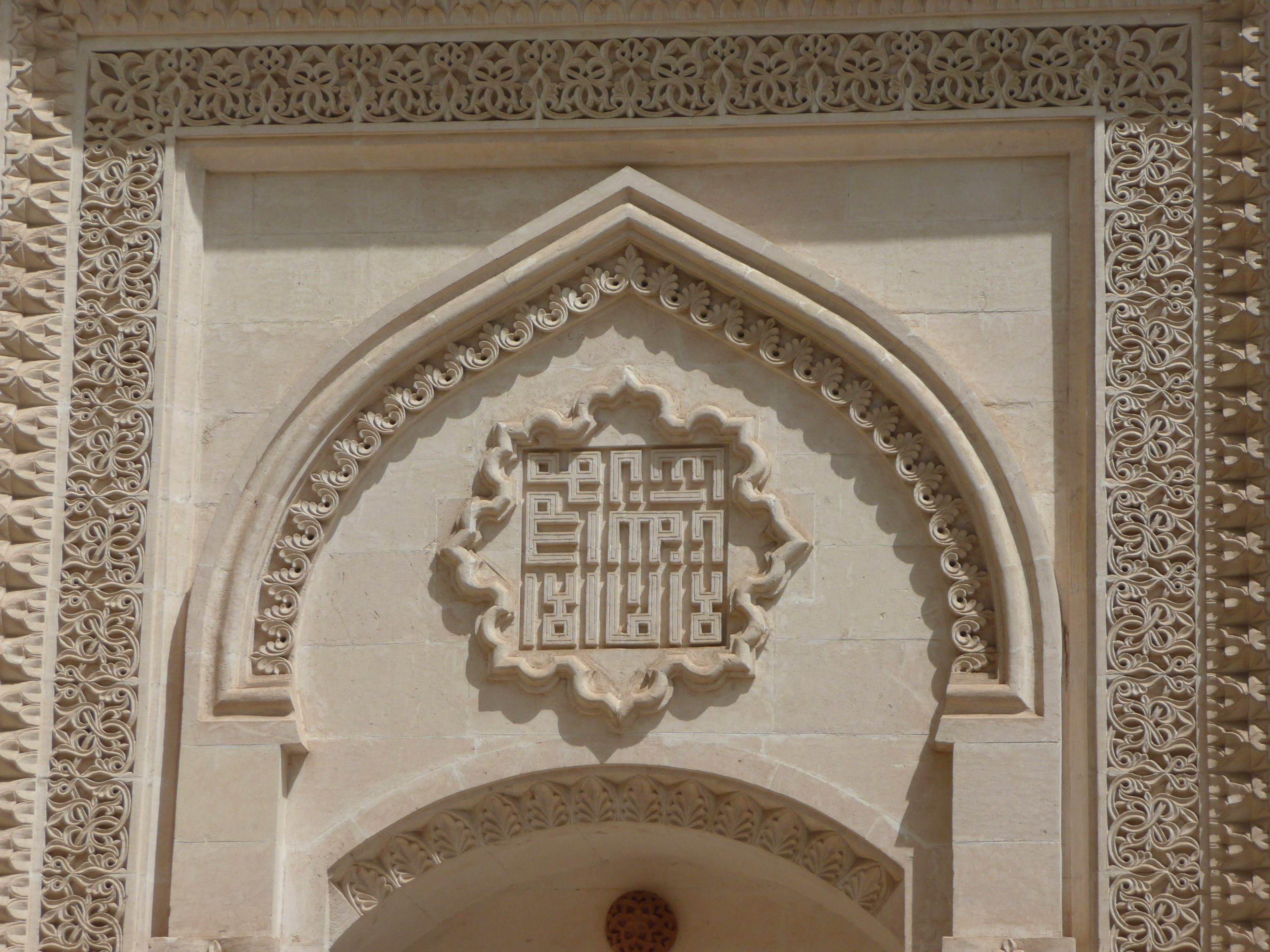 Photographs from Mardin, Turkey